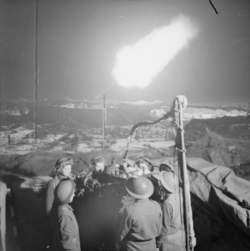 The British Army in the United Kingdom 1939-45 ATS girls operate a predictor at a 3.7-inch anti-aircraft battery at Dunfermline in Scotland, 6 January 1943.